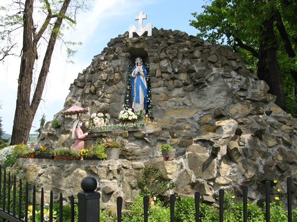 "Cave" of Zabełcze, Nowy Sącz, PL